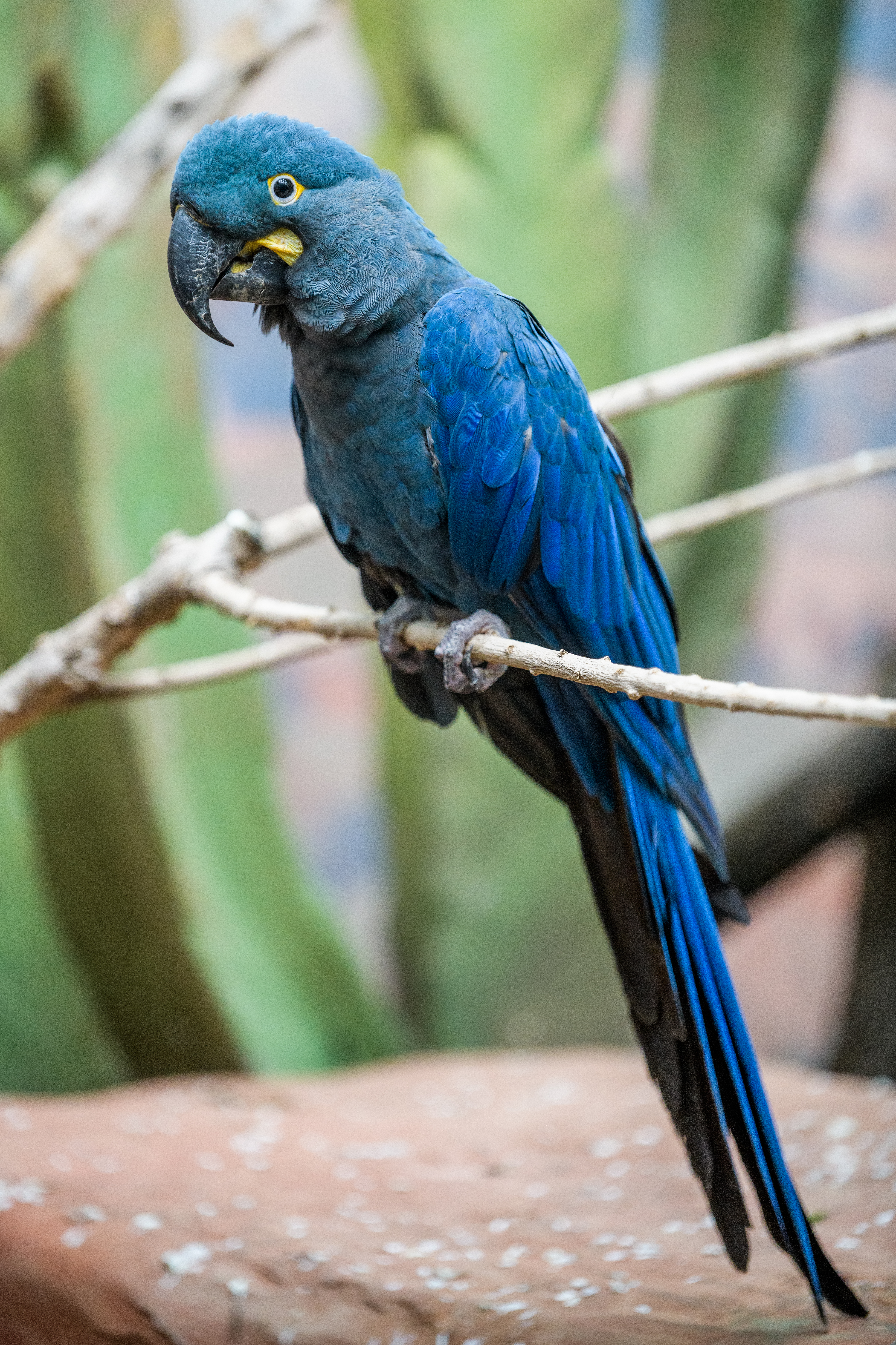 Lear's macaw in Rákos' House, Prague Zoo